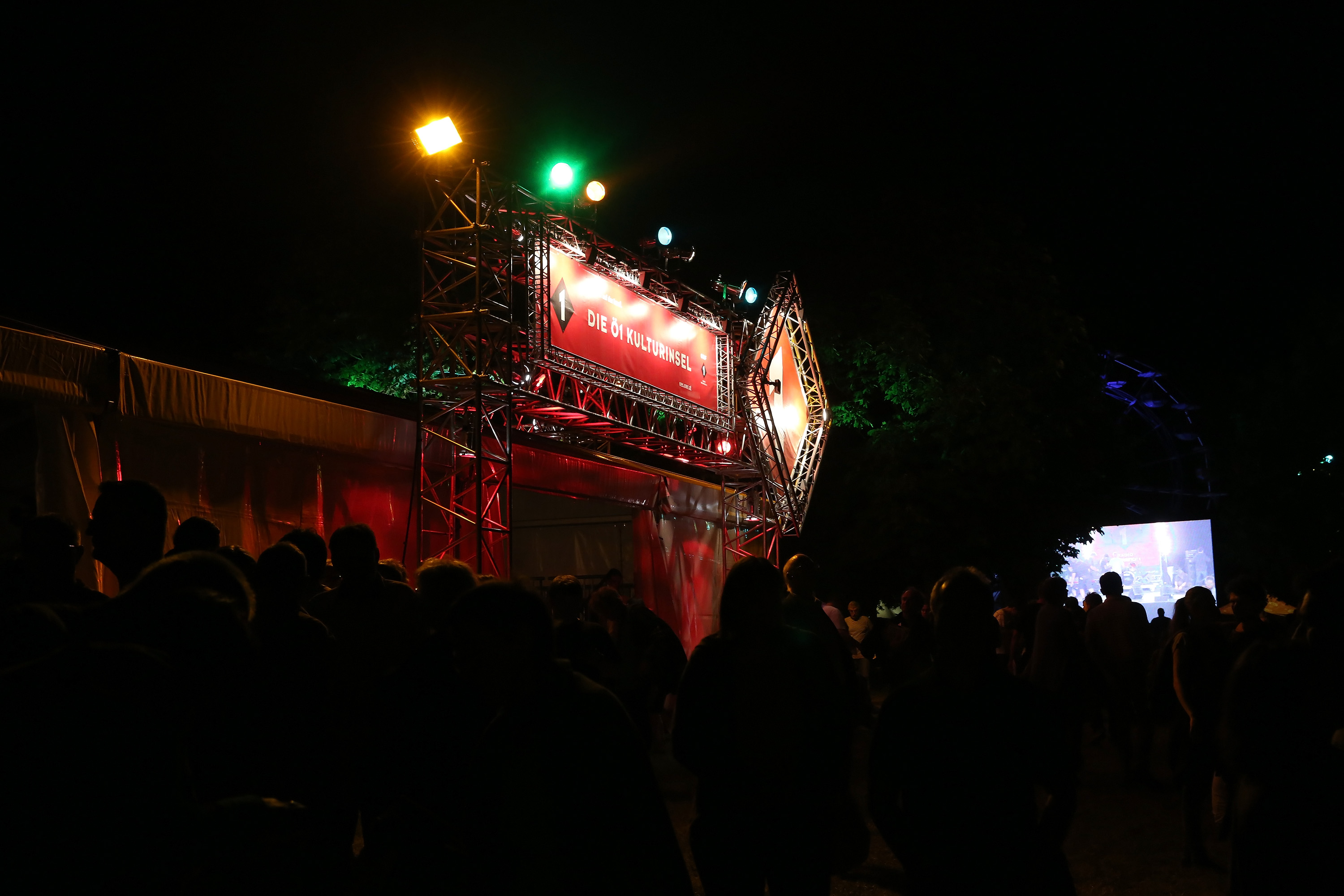 Ö1-Kulturinsel (en: Culture Island) at Donauinselfest 2014 in Vienna, Austria